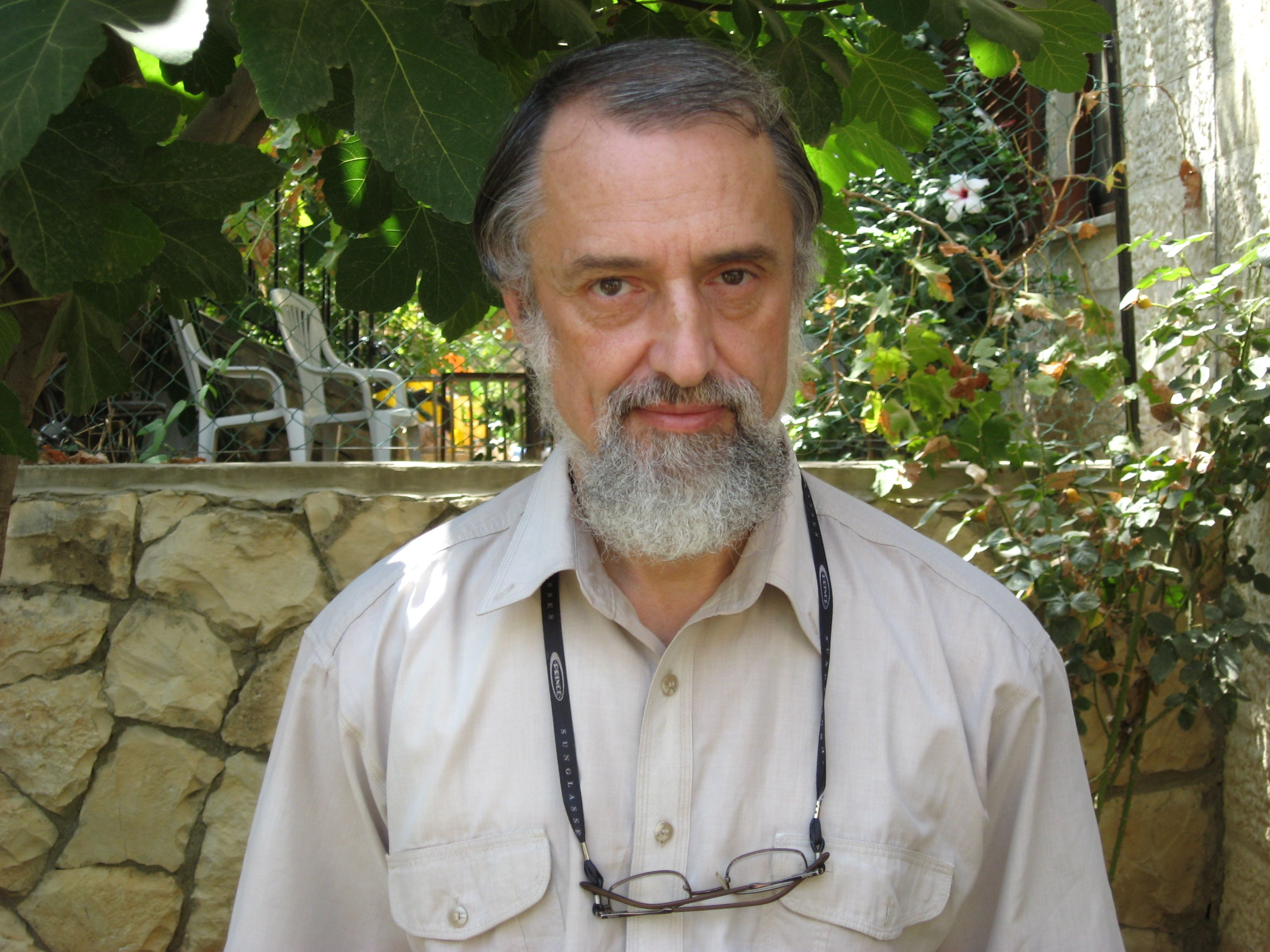 Portrait of Ehpraim Kholmyansky, Jewish activist in USSR, former prisoner of Zion